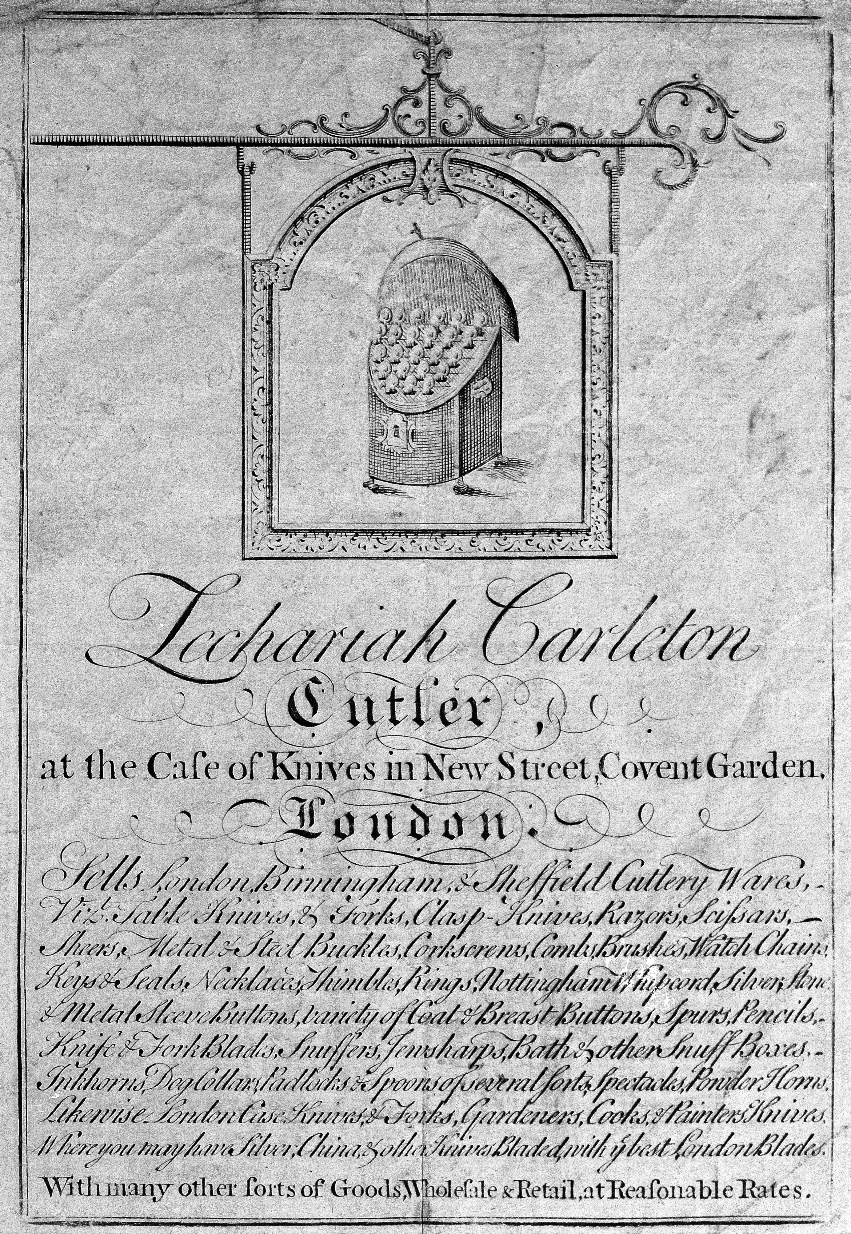 Zachariah Carlton at the Case of knives in new Street, Covent Garden, London. Case of knives shown. Wellcome Images Keywords: Surgical Instrument; Surgical Instruments